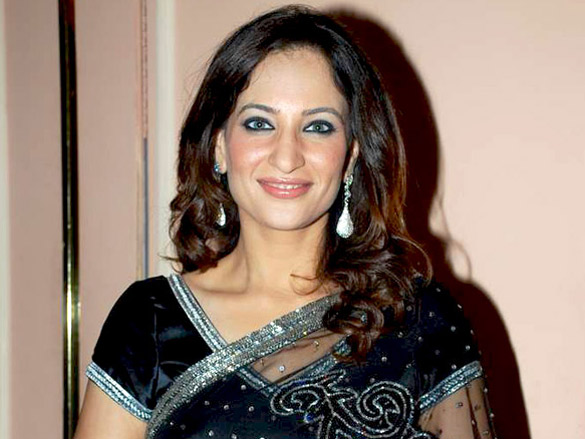 Rakhsandha khan